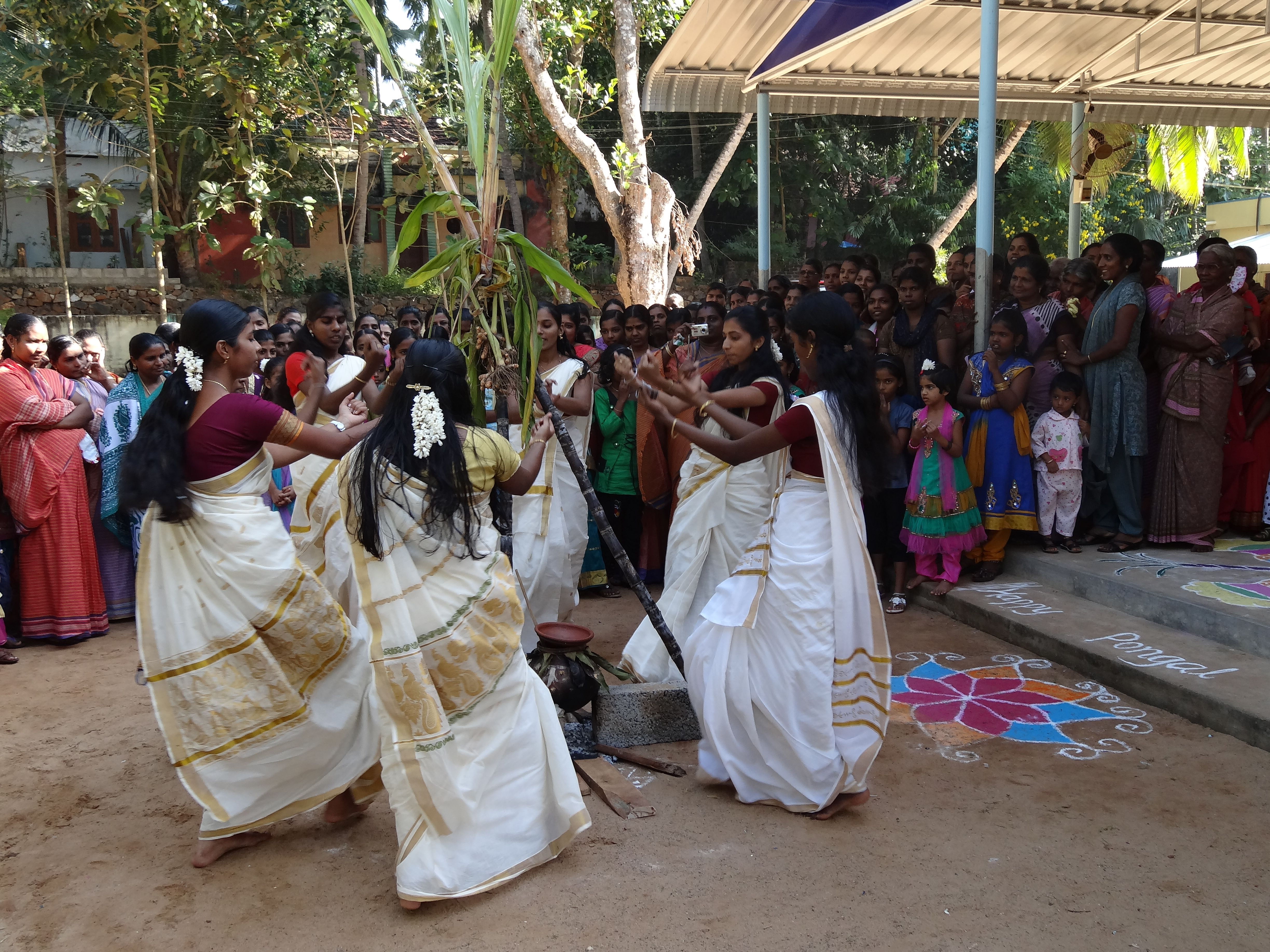 Kallukoottam chuch pongal celebration